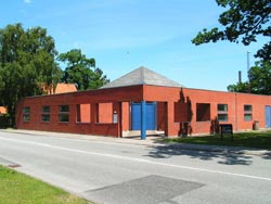 The Seventh Day Adventist church in Køge, Denmark